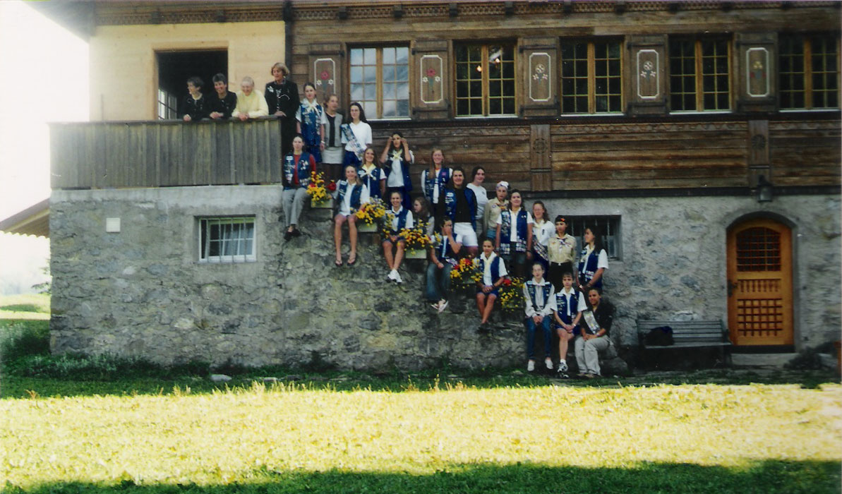 Depicted place: Our Chalet